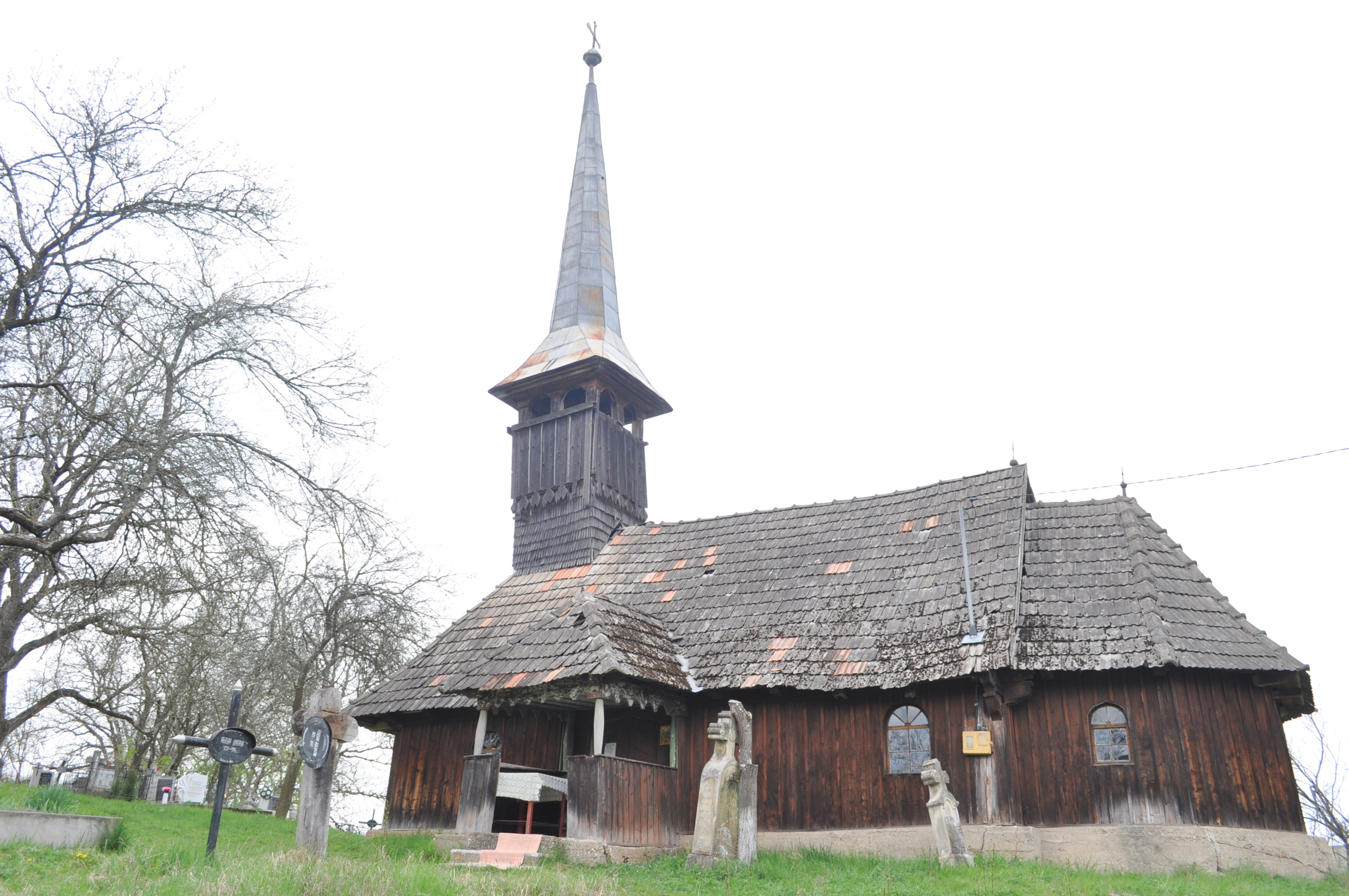 Wooden church in Mierţa, Sălaj county, Romania